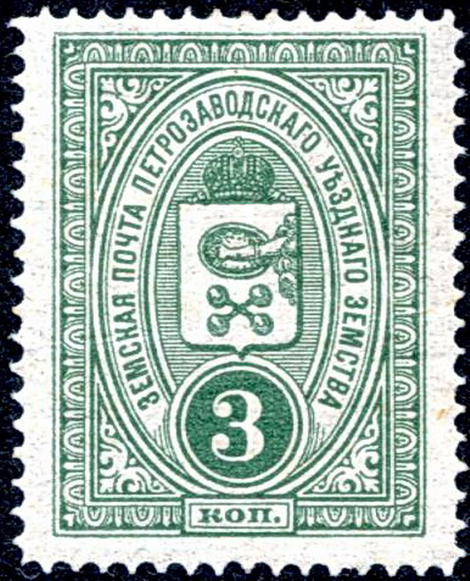 Petrozavodski rural stamp, 1901, 3k.